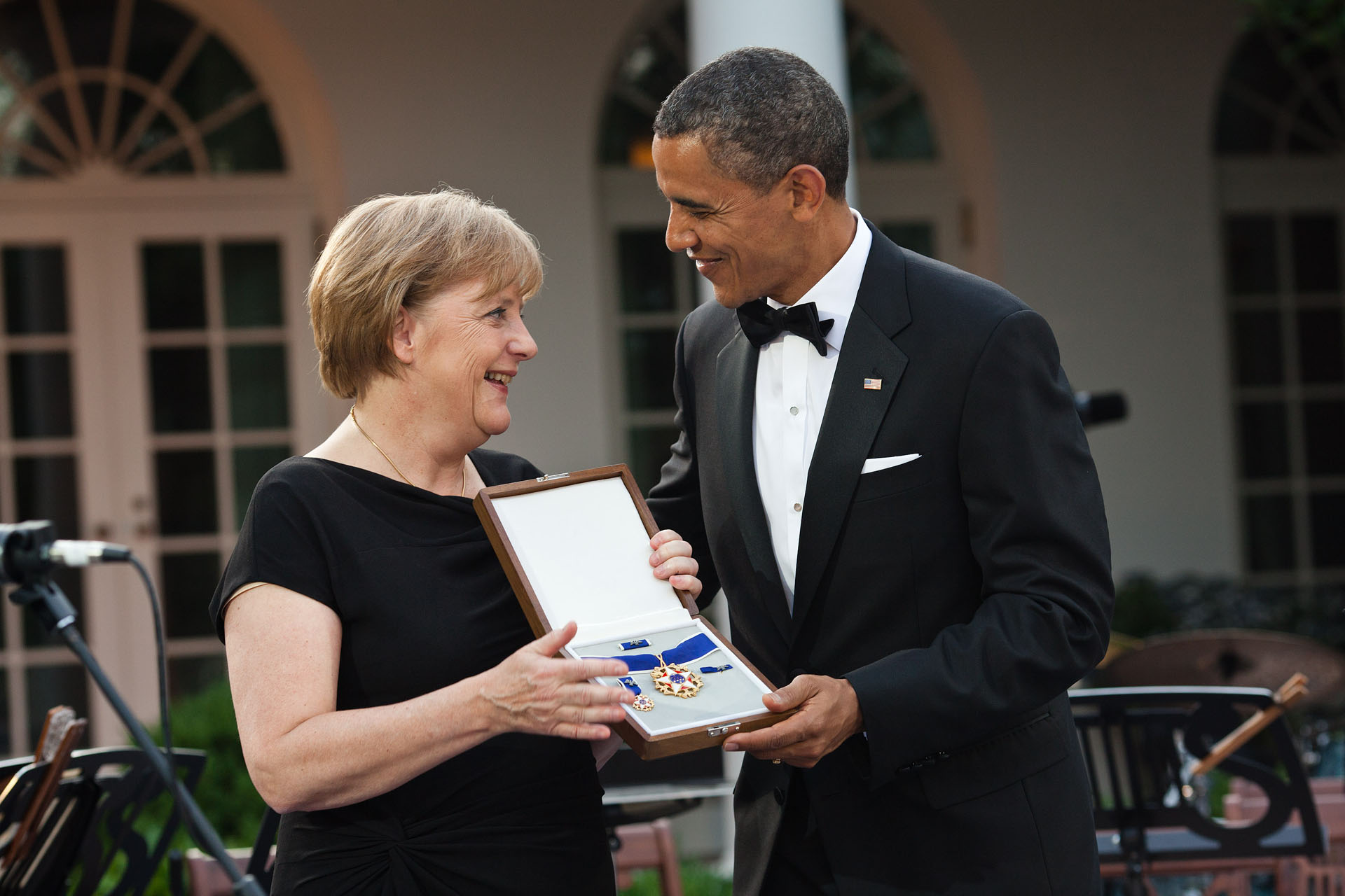 Barack Obama presents the Presidential Medal of Freedom to Angela Merkel